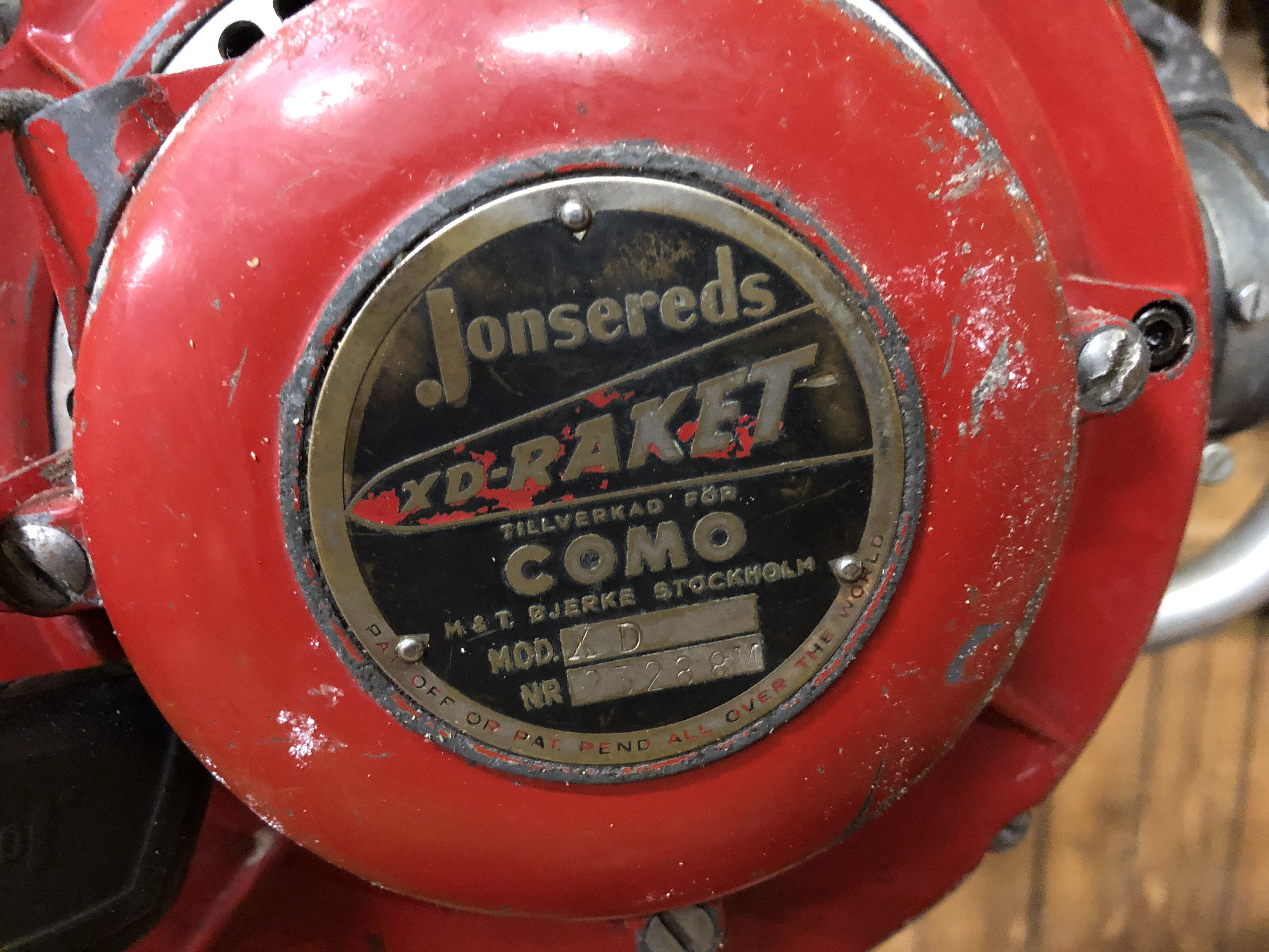 The chainsaw Jonsereds Raket XD, manufactured by Jonsereds fabriker, Jonsered, Sweden for Como M&T Bjerke